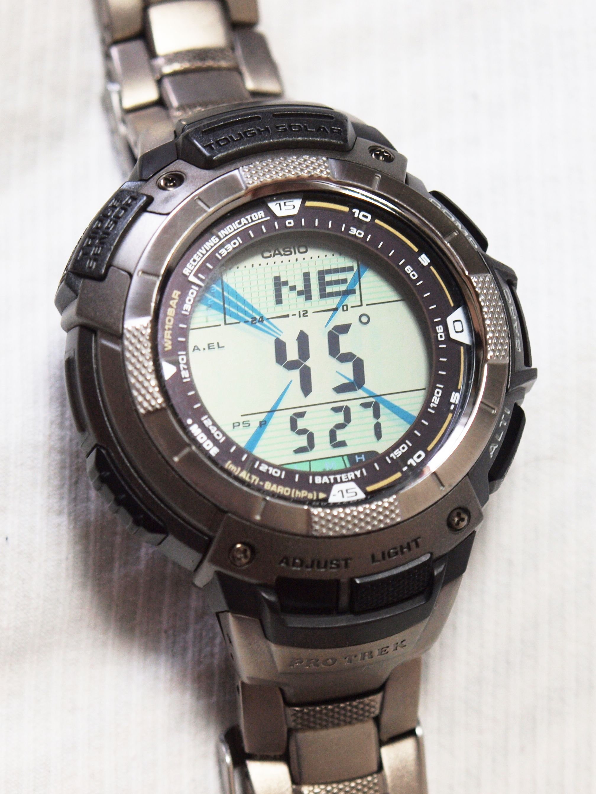 CASIO PROTREK PRW-1000TJ-7JR